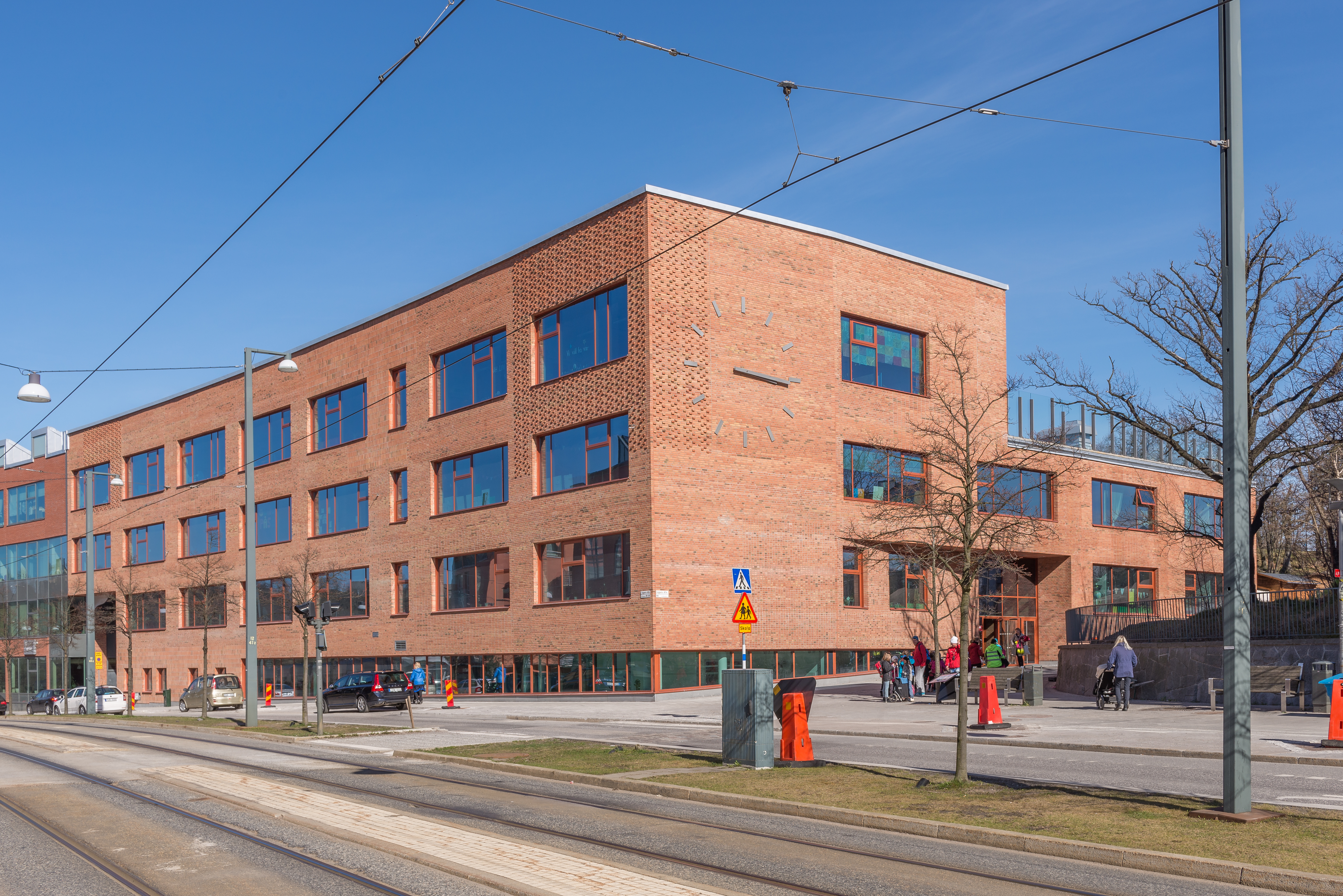 Lugnets skola (school). Södra Hammarbyhamnen, Stockholm. Architects: AIX Arkitekter.